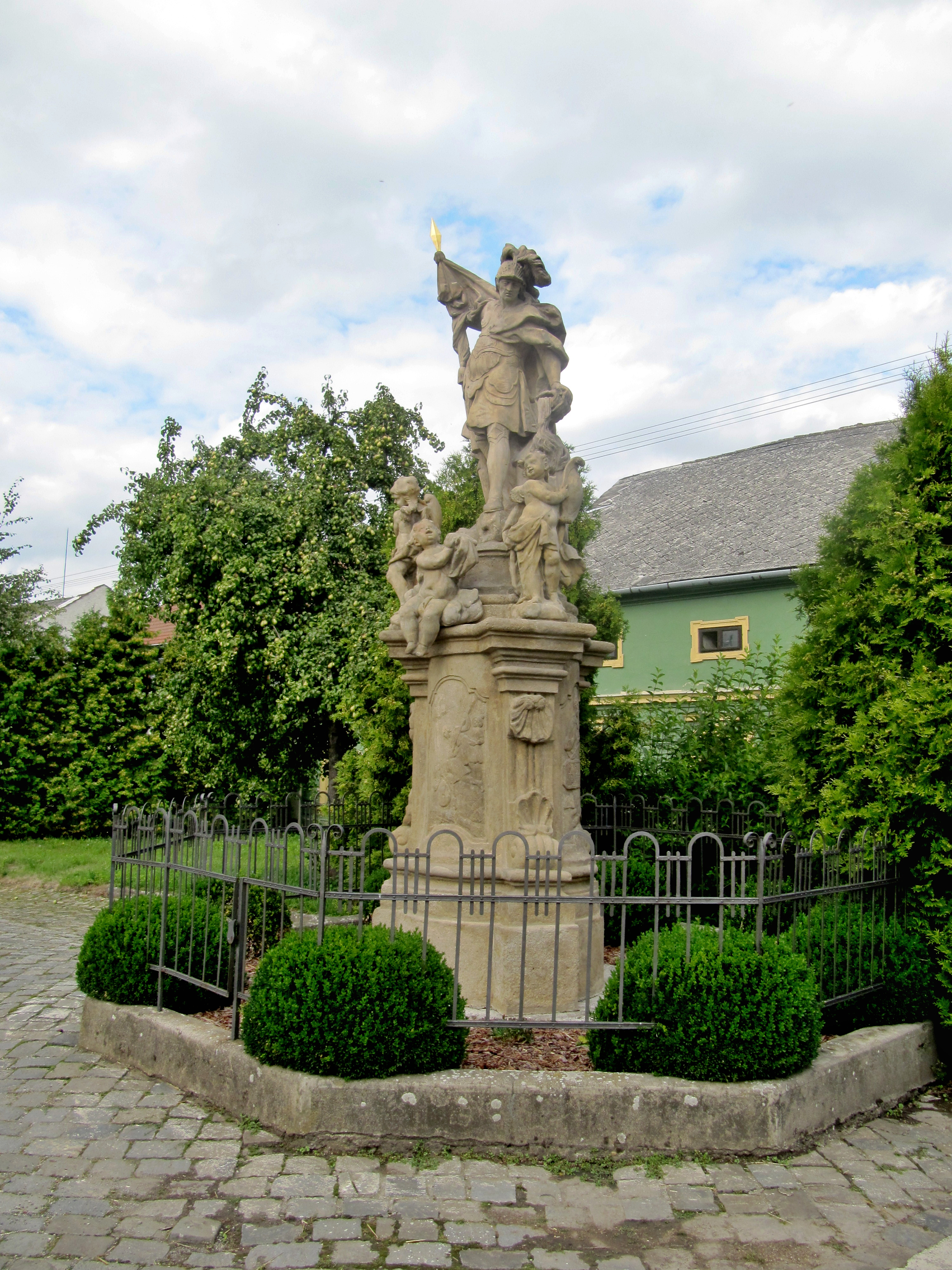 Uhřičice, Přerov District, Czech Republic.